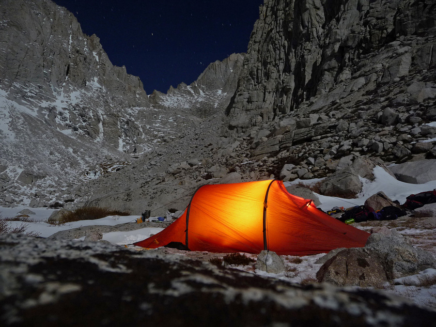 This was taken December of 2011 near Mount Whitney.